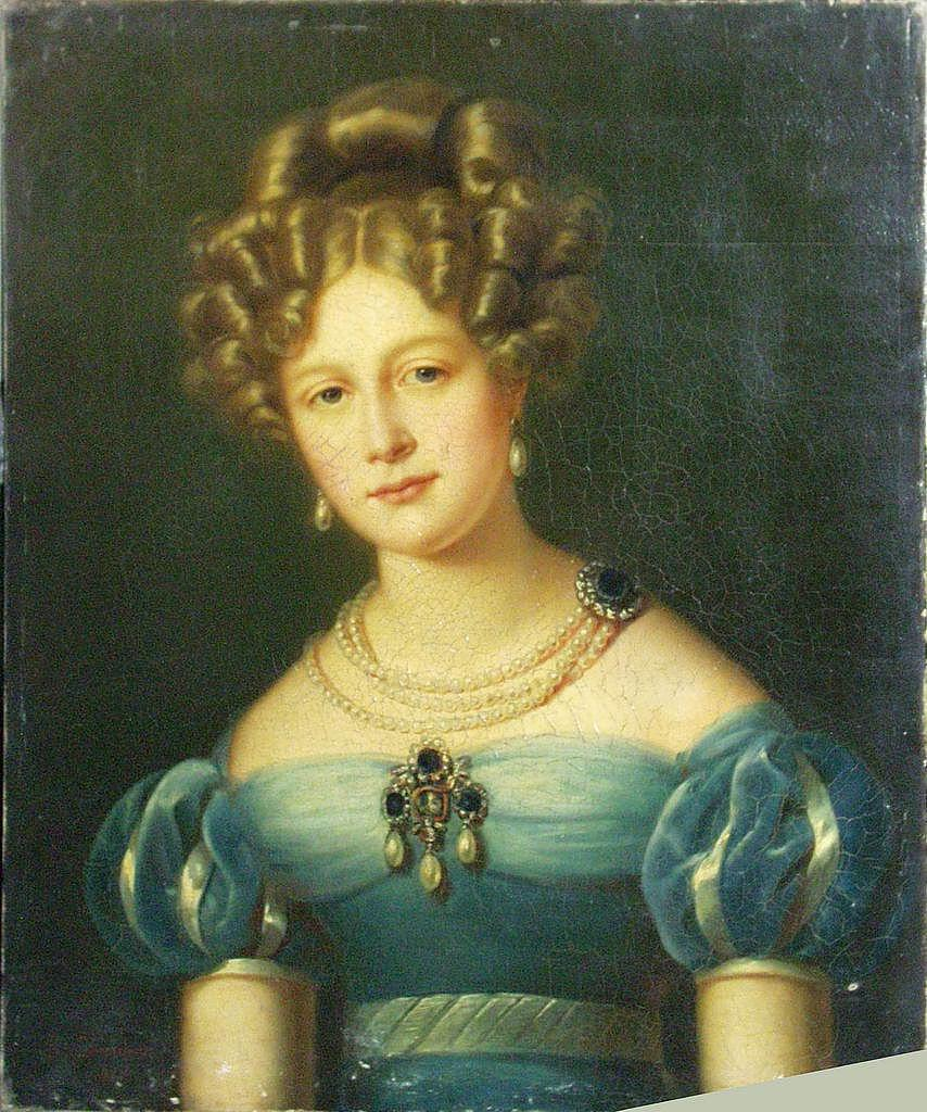 Charlotte of Württemberg (Elena Pavlovna)